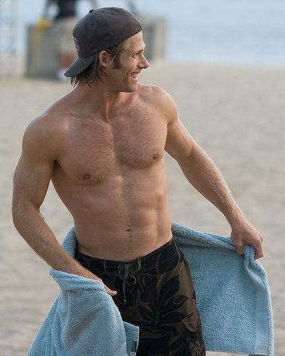 Photo of Chris Carmack on a beach in May 2008